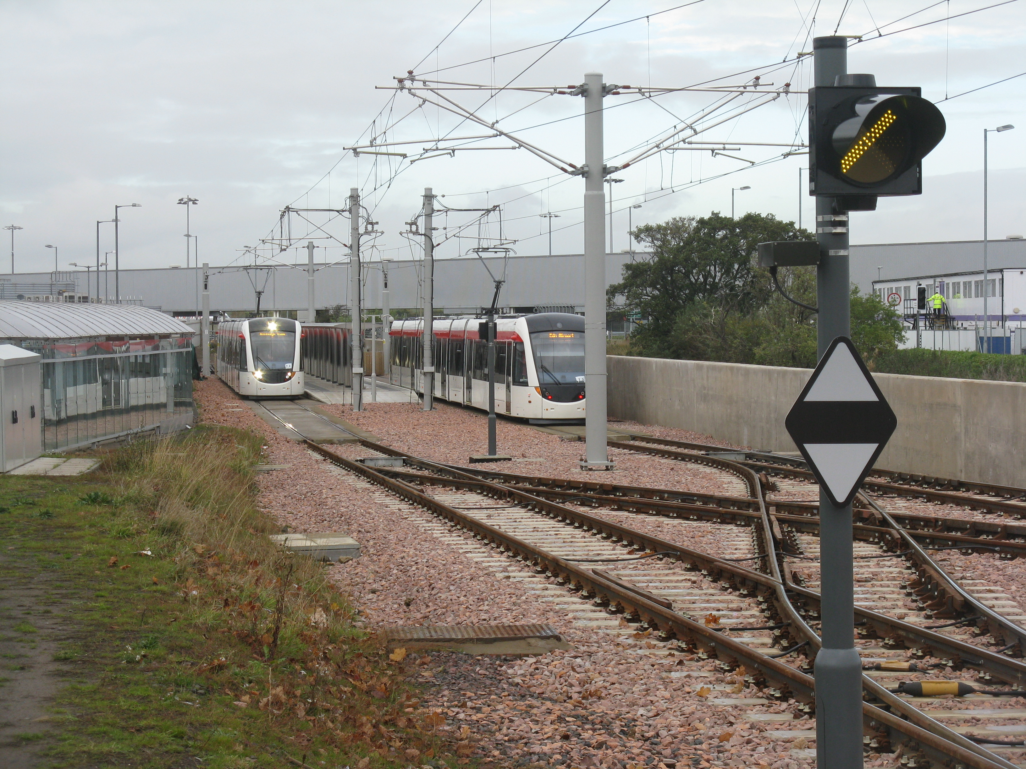 Tram crossing and signal